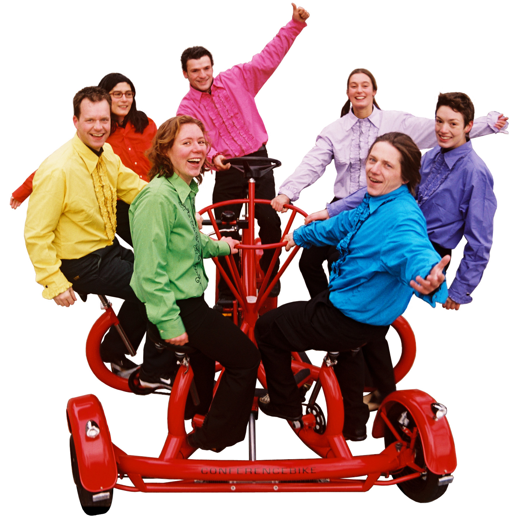 ConferenceBike, inventor, artist and photographer of this photo -Eric Staller